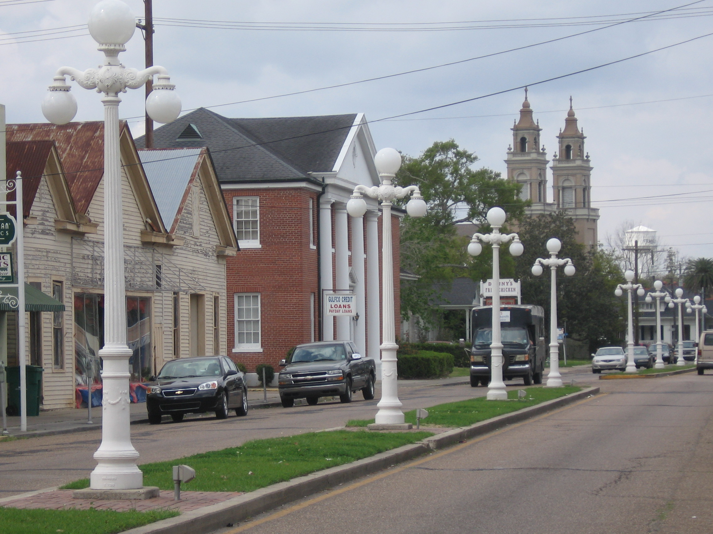 Main street in Franklin, Louisiana, in March 2007. Running parallel to Bayou Teche, Main Street is flanked by two rows of huge live oak trees.